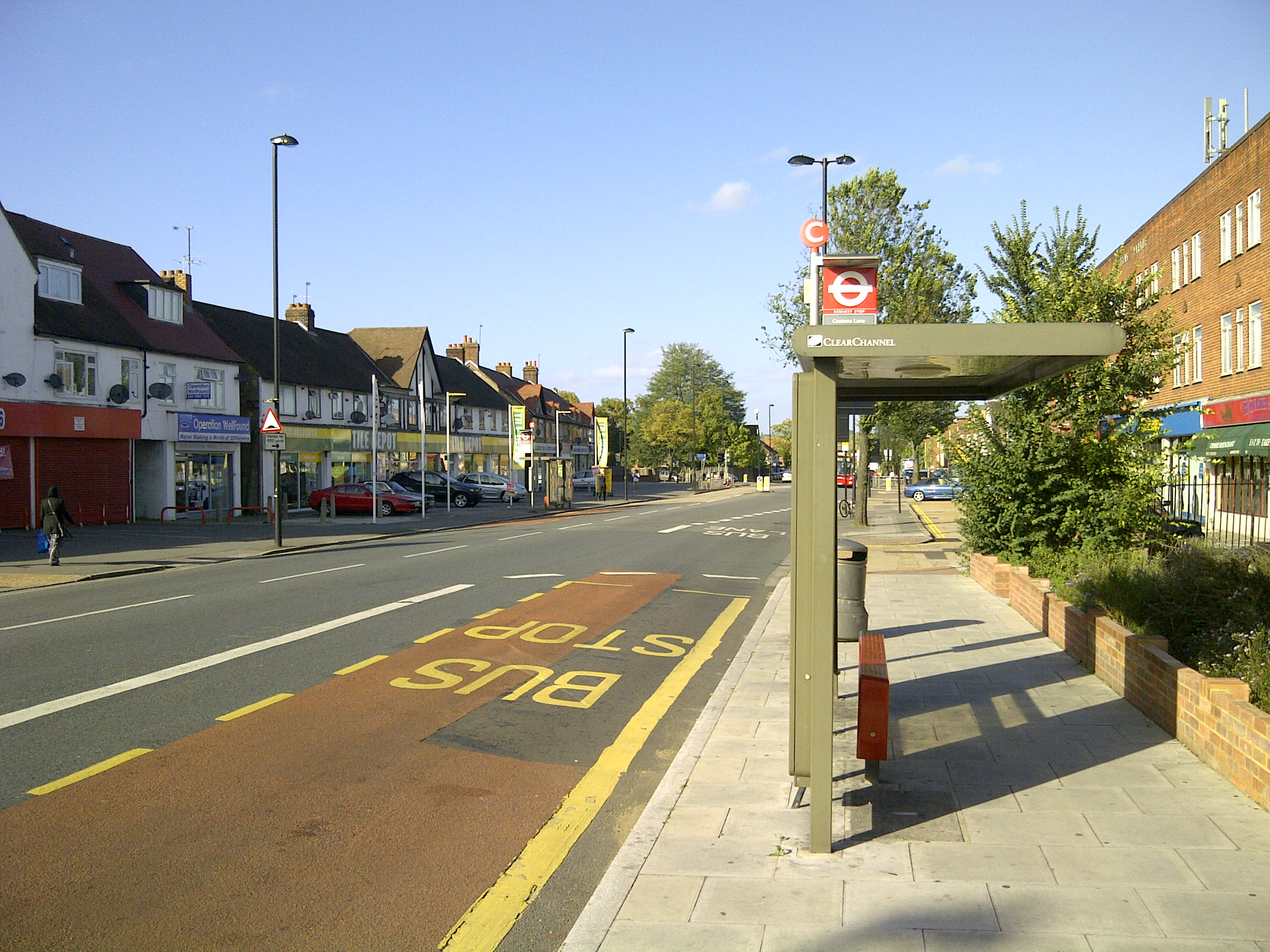 Greenford Road in Ealing, London